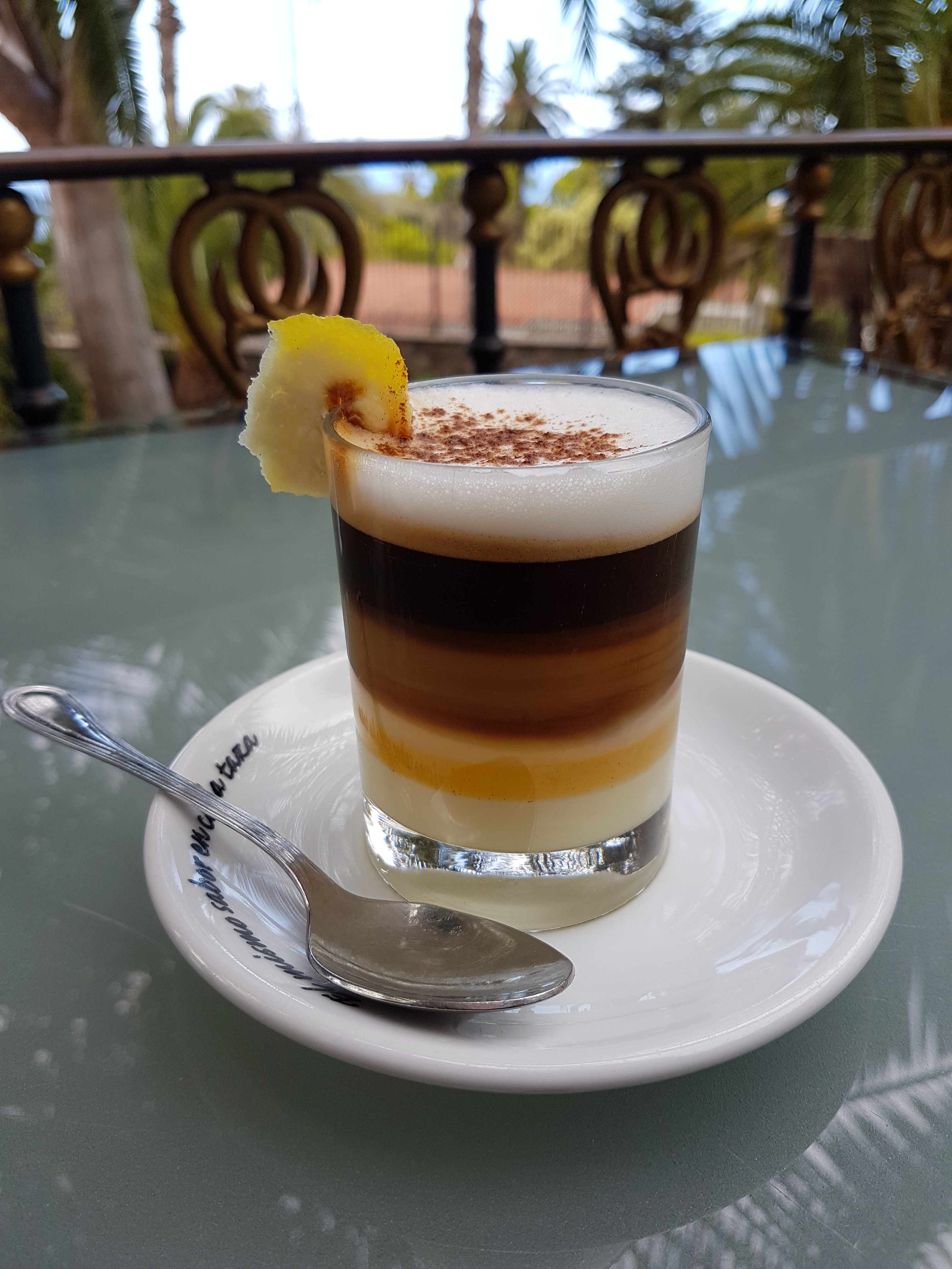 A Barraquito drink (coffee) photographed in La Orotava.